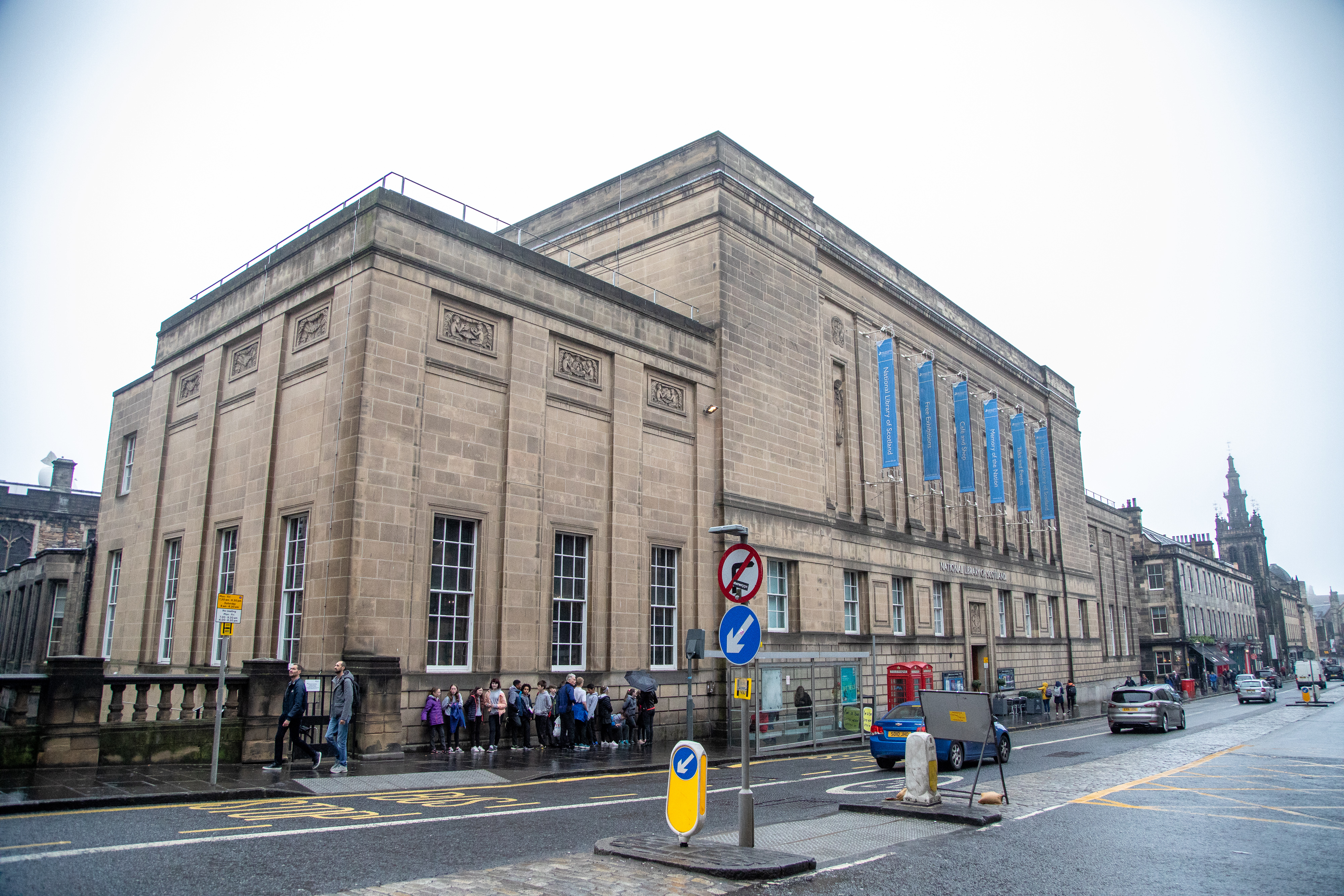 A view of the National Library of Scotland